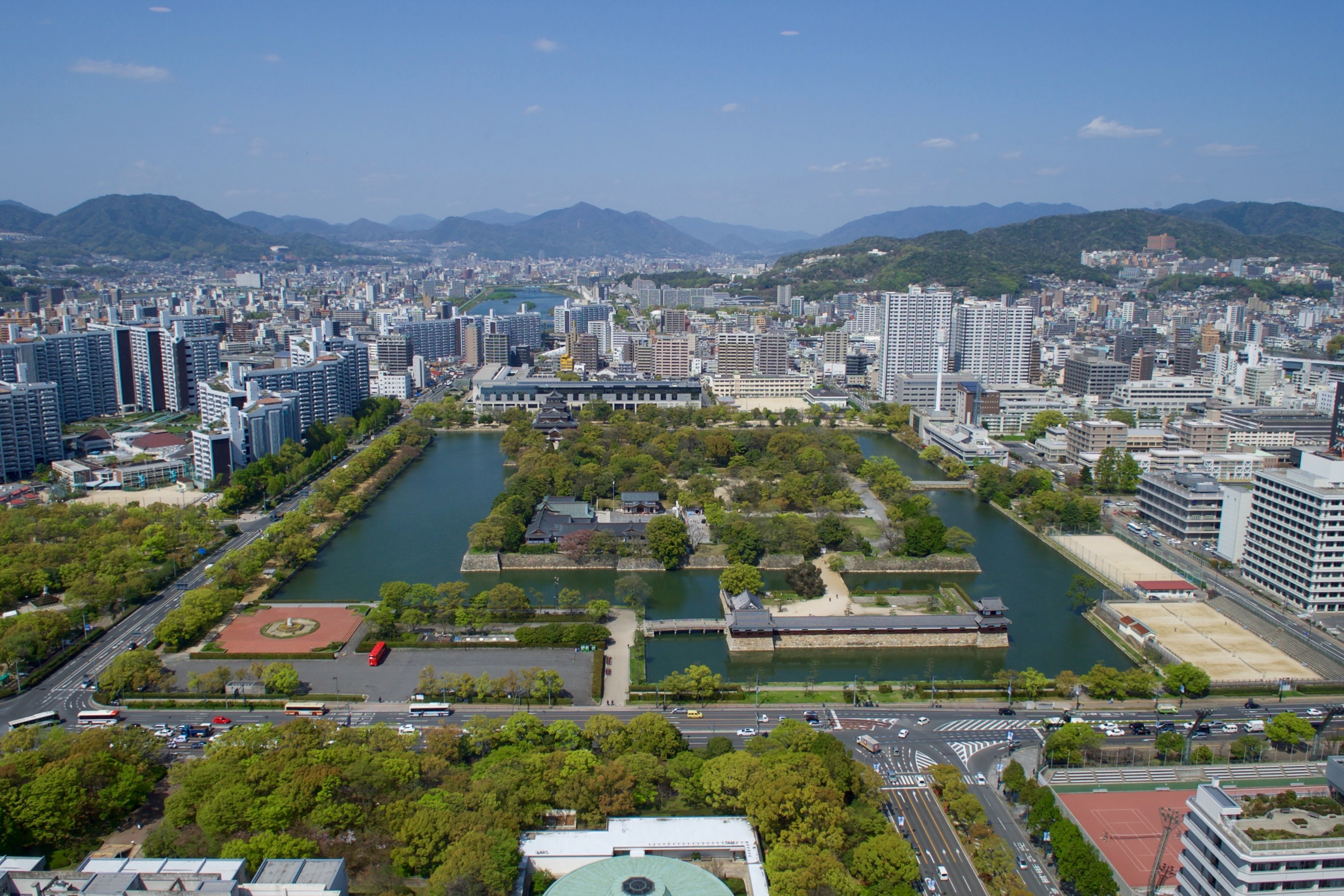 An overview of Hiroshima, Japan, and the Hiroshima Memorial Peace Park - commemorating the 1945 atomic bombing of the city - as seen from a hotel rooftop on April 11, 2016, as U.S. Secretary of State John Kerry visited the city to attend the G7 Ministerial Meetings. [State Department photo/ Public Domain]